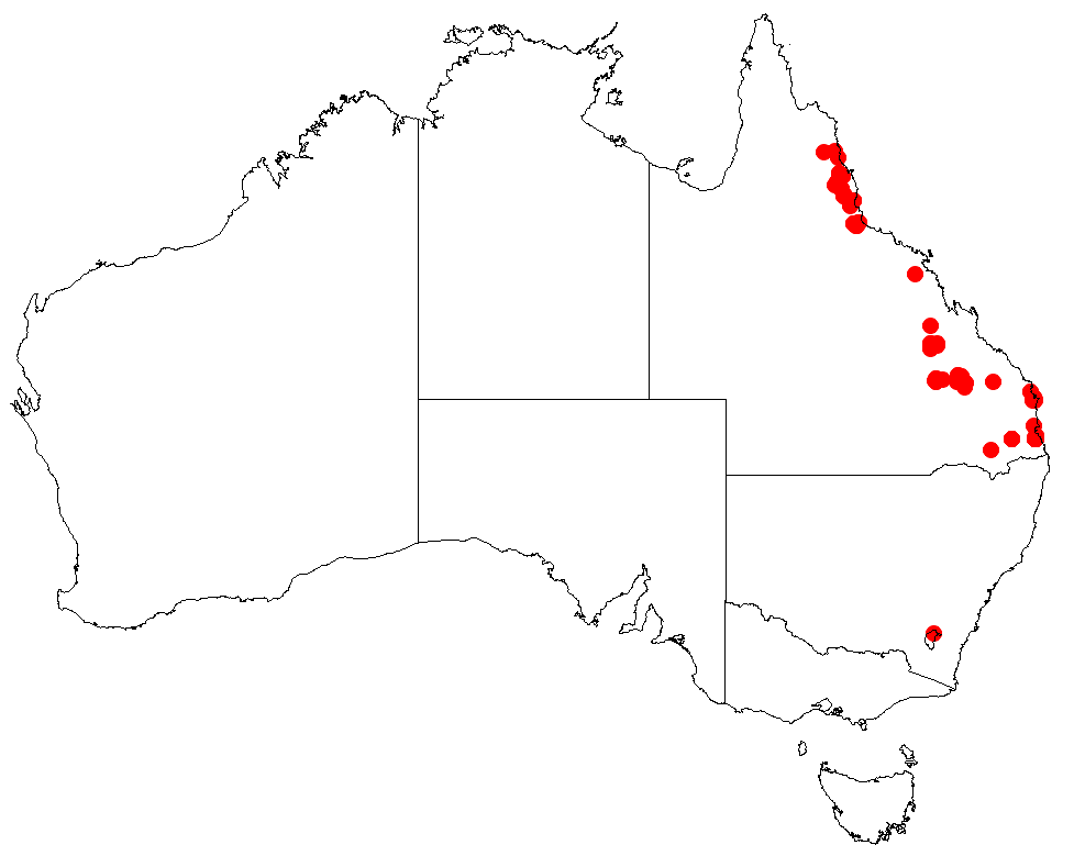 Hakea plurinervia Occurrence data downloaded from Australasian Virtual Herbarium on 22 November 2018 using